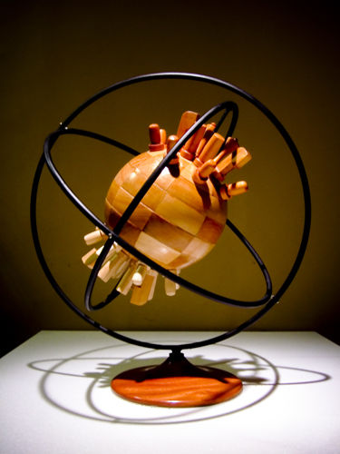 Photo of Globe Chess.